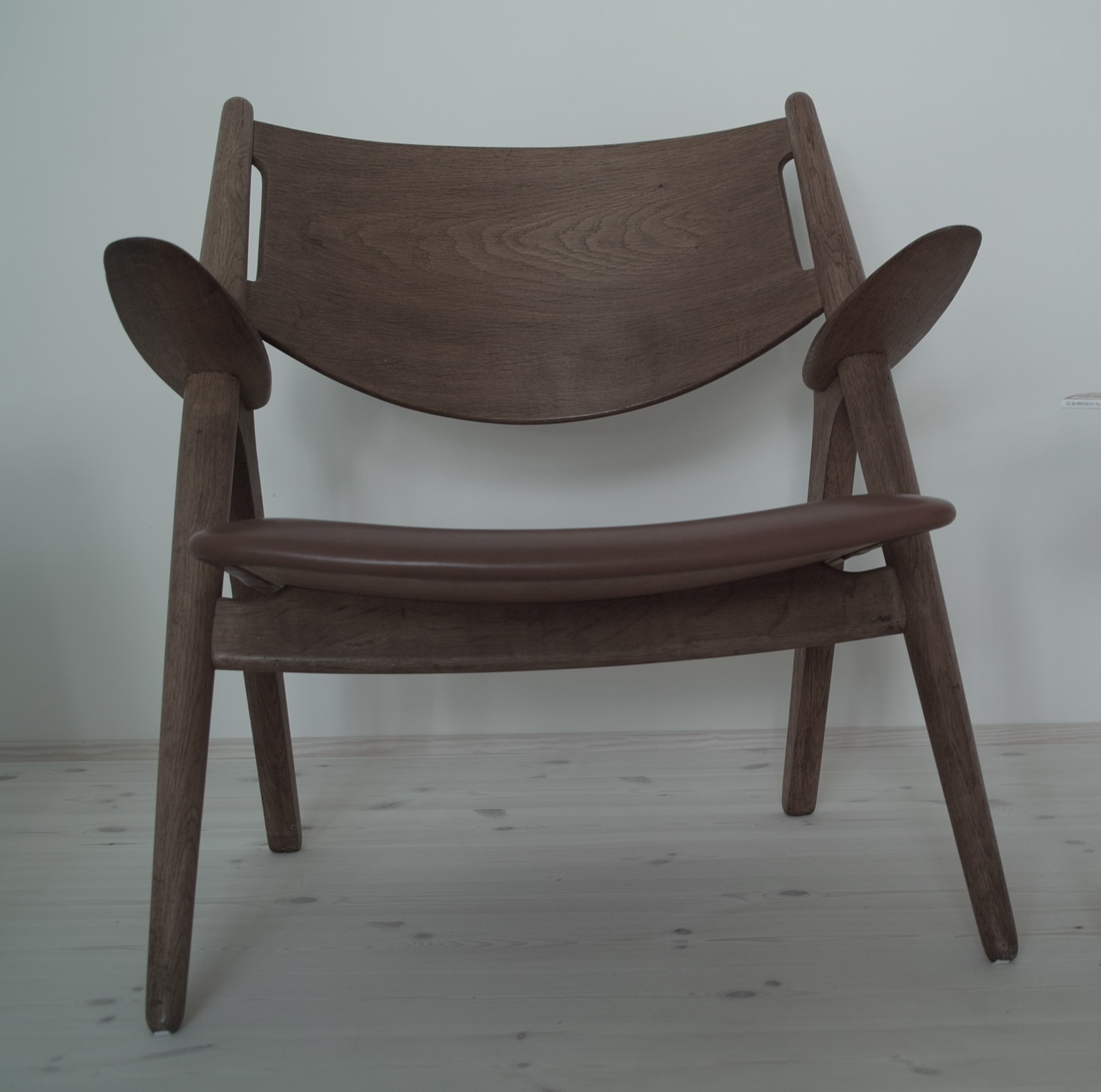 Danish furniture designer Hans J. Wegner's Sawhorse Easy Chair (CH28)